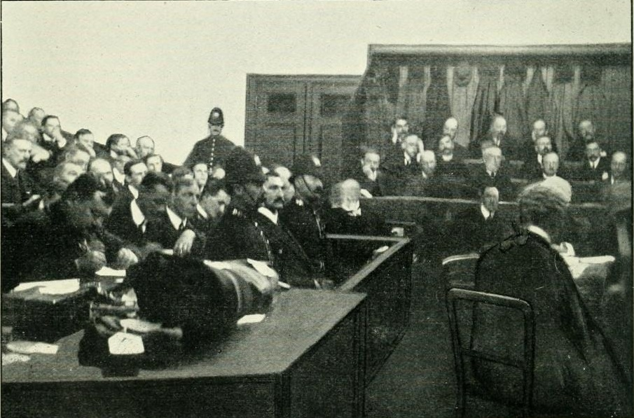 May 1909